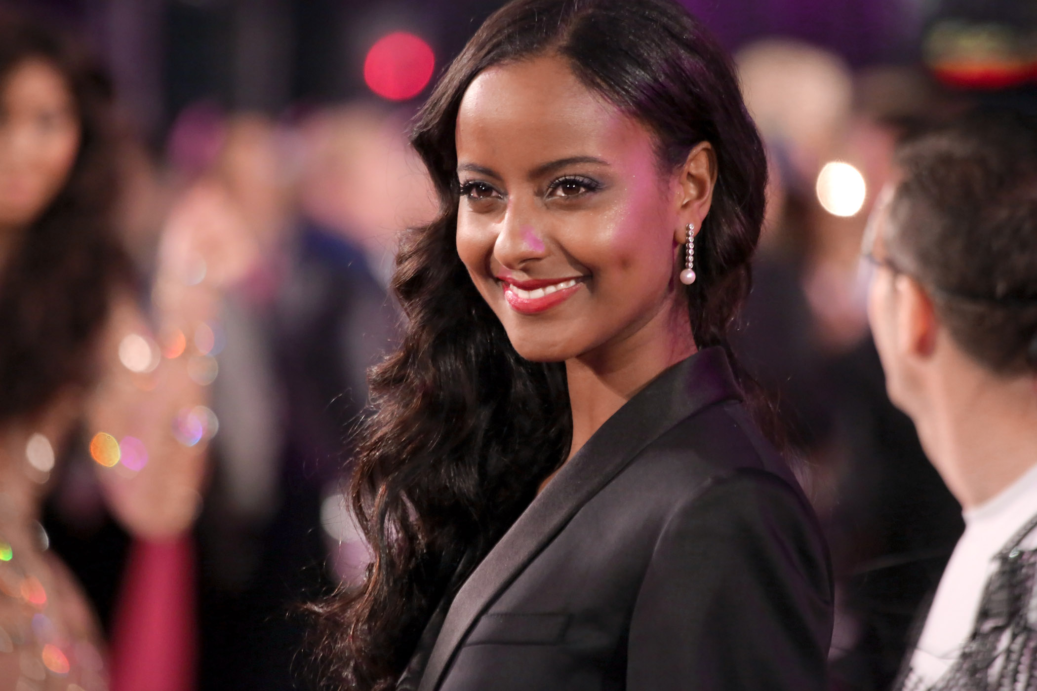 Sara Nuru on the 'magenta carpet' at Life Ball 2013 at the square in front of the city hall of Vienna, Vienna, Austria.